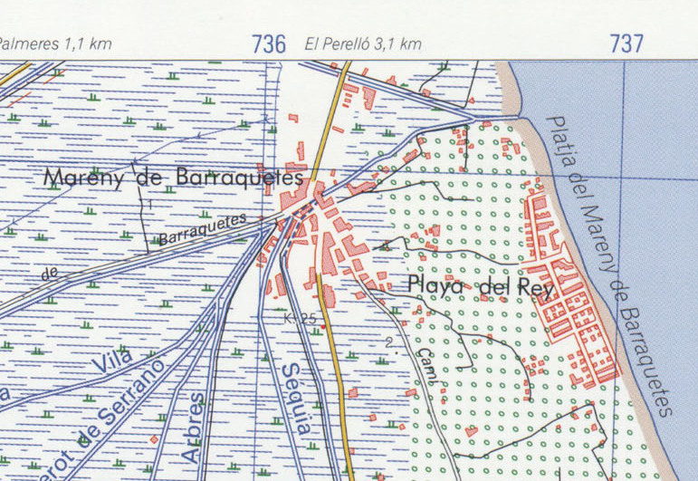 Fragment 0747c4 of the National Topographic Map of Spain in 2004 at a scale of 1:25000 printed and scanned with a resolution of 250 ppi. It shows Sueca.